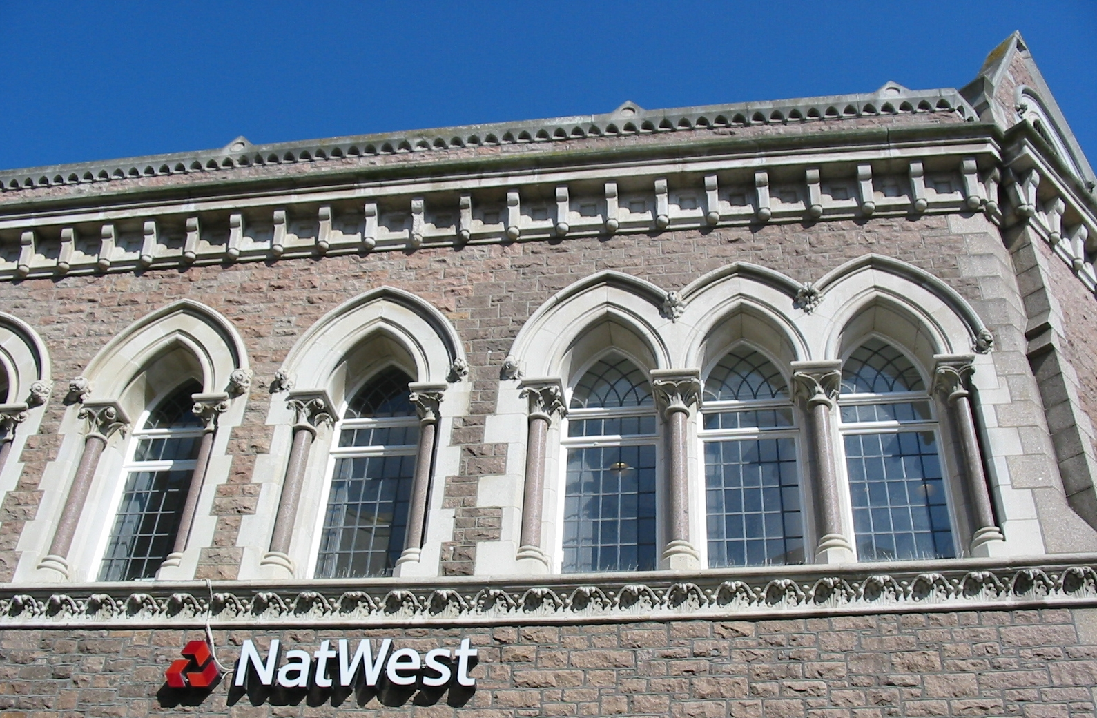 Jersey